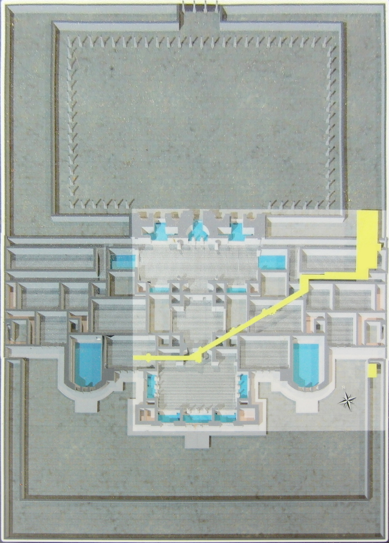 Layout of the Roman Barbara Baths in Trier, Germany (public information board).